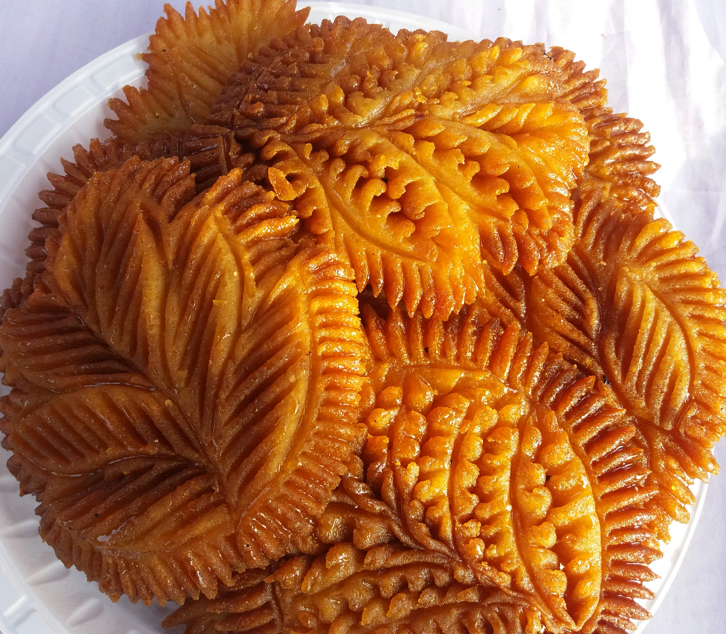 Nokshi pitha